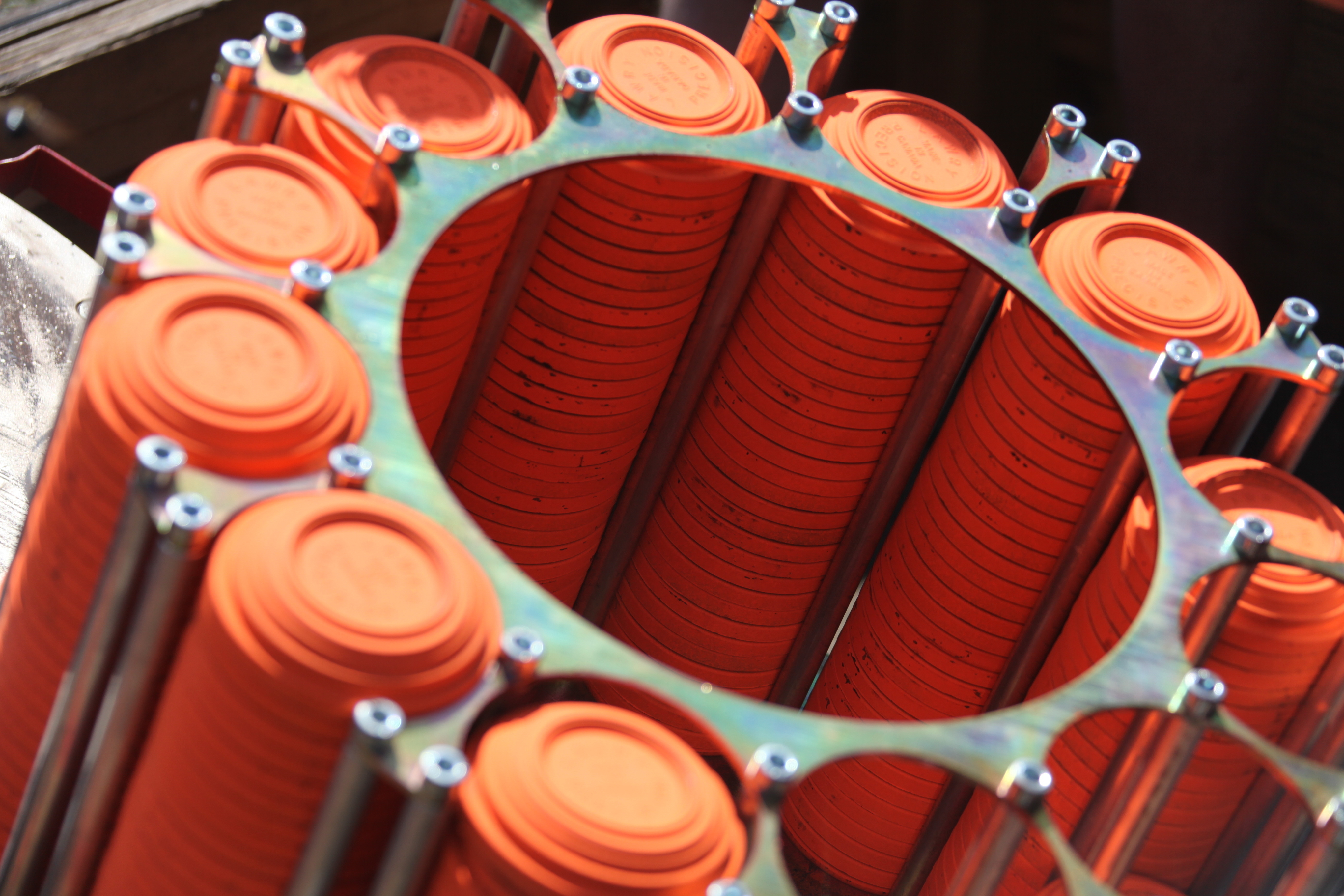 Stacks of clay pigeons are placed in a launcher used for trap shooting during the Marine Corps Air Station Cherry Point Skeet Club Spring Family Fun Shoot at the air station shotgun range April 14.